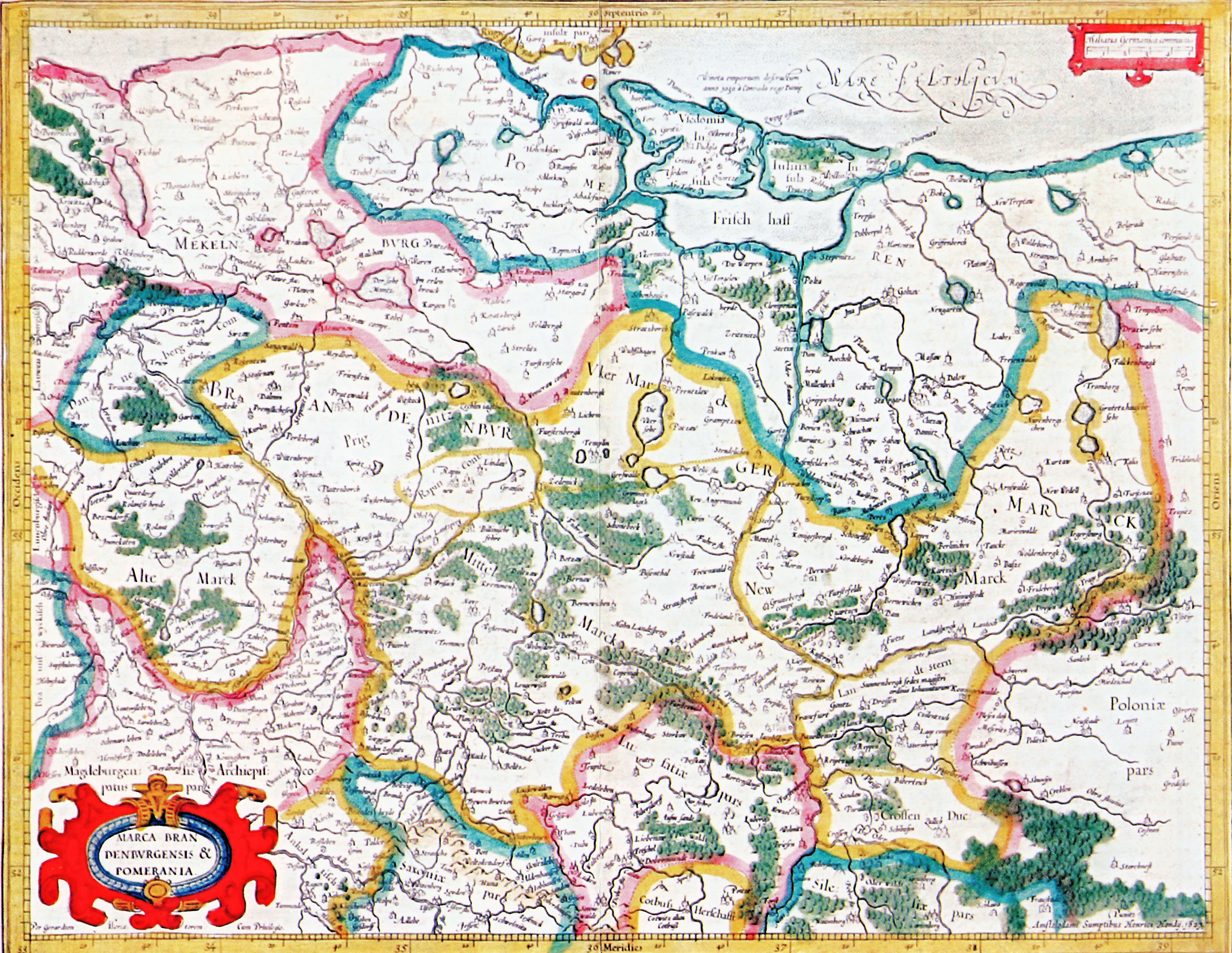 Map of Brandenburg and Pommern from Gerardus Mercator's atlas, 1585